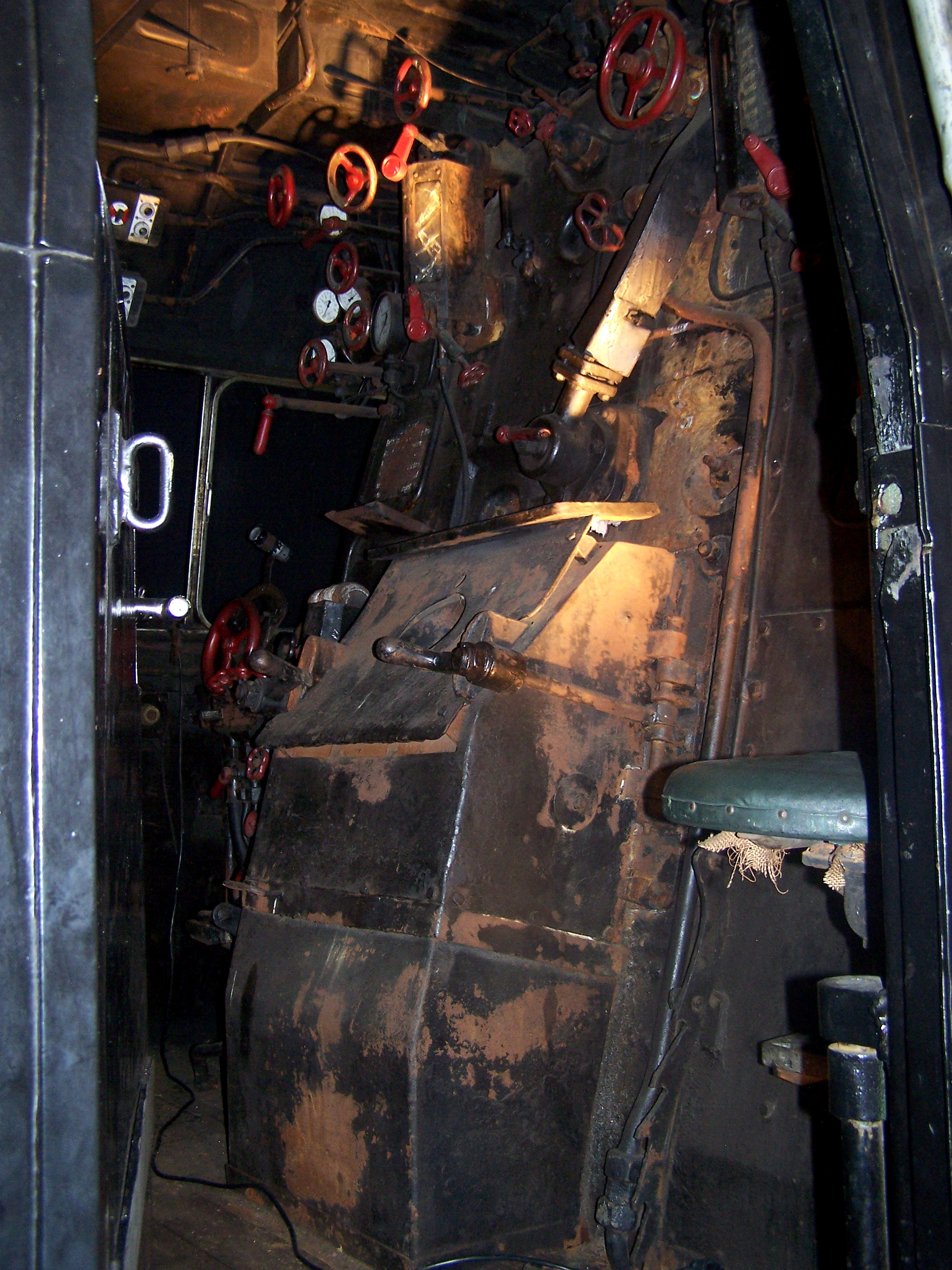 Drive cab of the historic steam locomotive 10 001 from 1956 in the Transport Museum in Nuremberg in the exhibition "Adler, Rocket and Co."